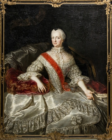 Portrait of Joanna Elisabeth of Holstein-Gottorp (1712-1760)